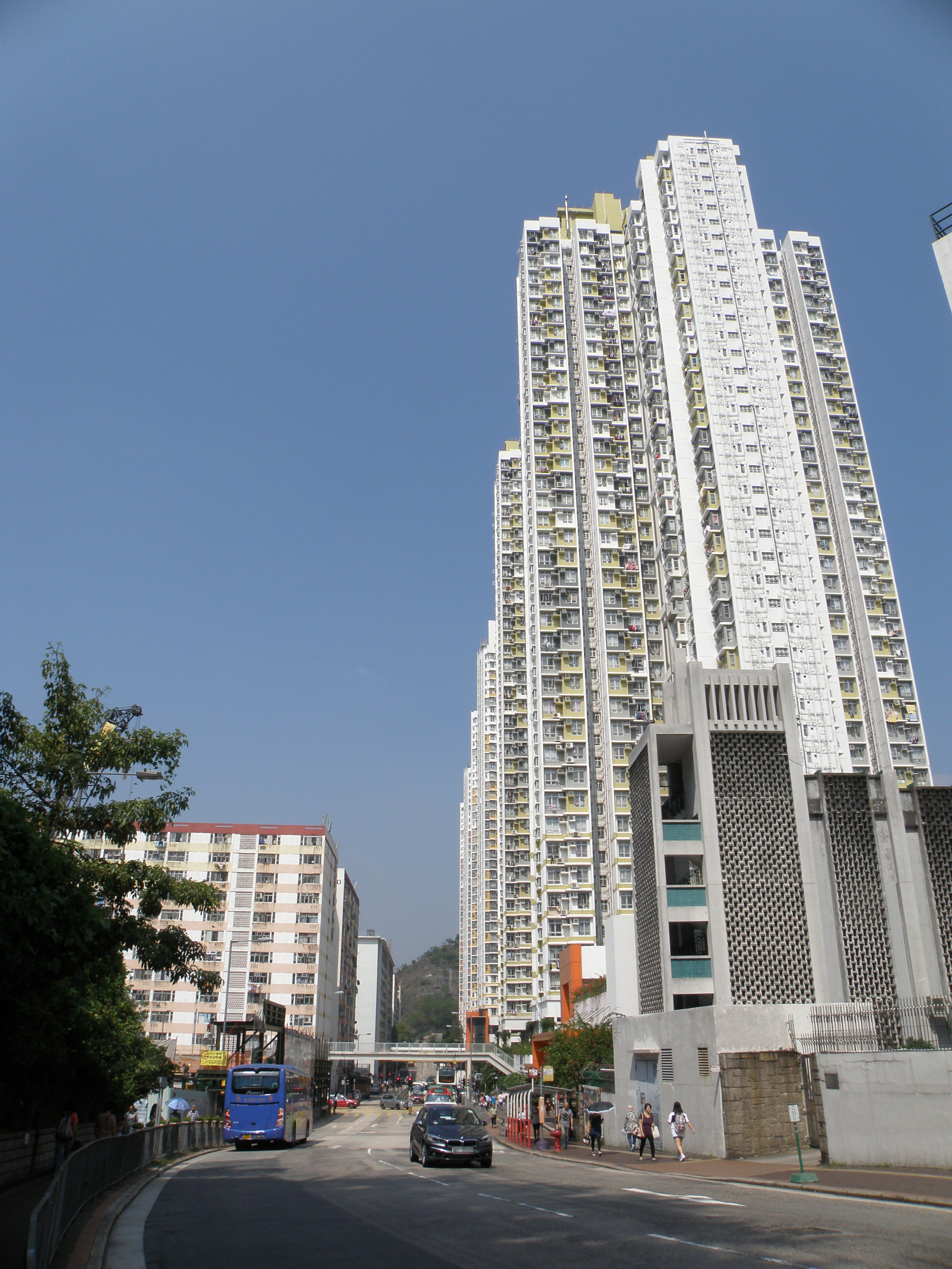 Shek Kip Mei Estate in Shek Kip Mei, Hong Kong.